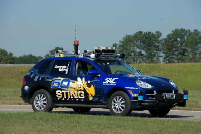 Dr. Egerstedt oversaw the control design for Georgia Tech’s self-driving car, Sting 1. Sting 1 participated in the 2007 DARPA Urban Challenge.